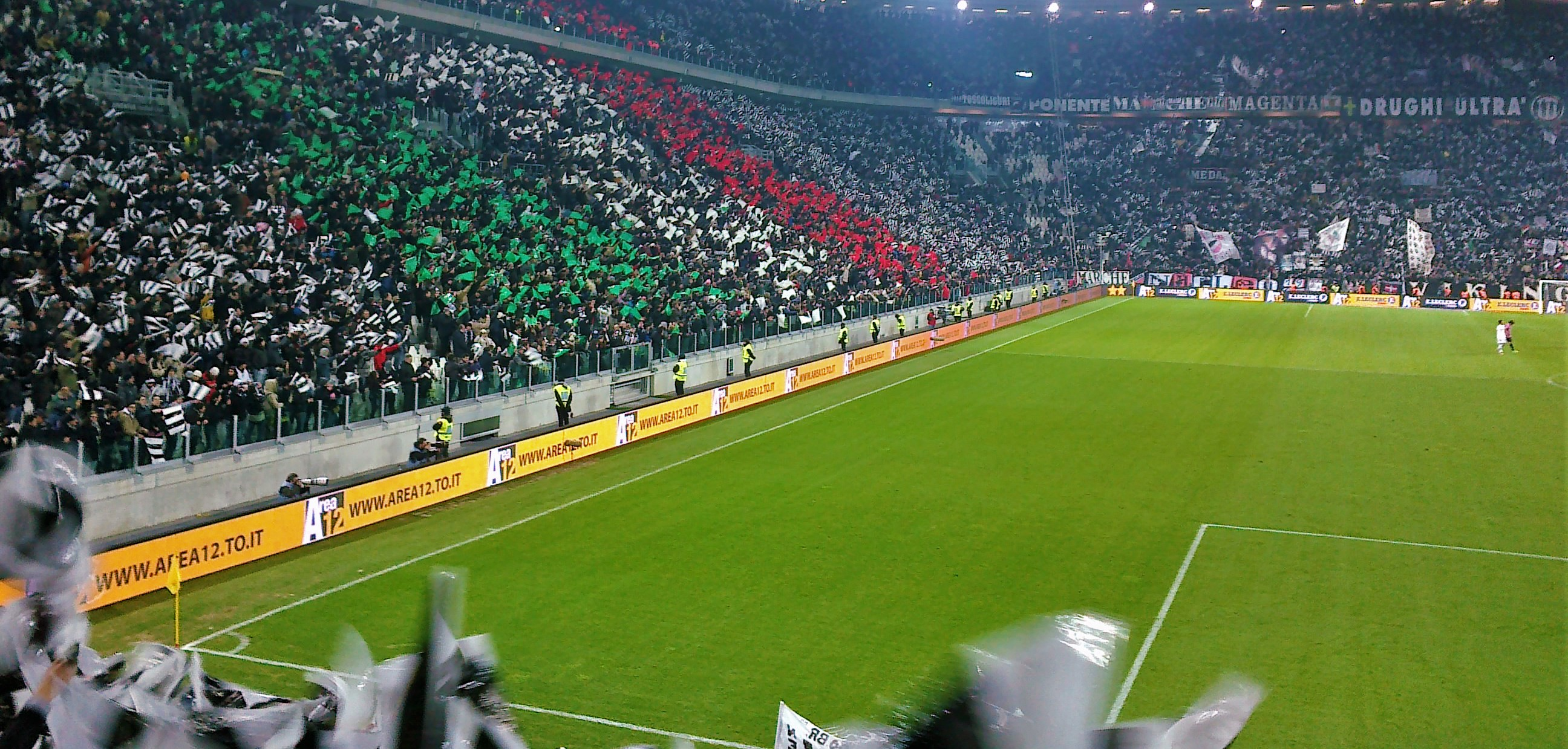 A general view of the east stand of the FC Juventus's new stadium ahead of the Coppa Italia football match between Juventus and Roma at the 'Juventus Stadium' in Turin, on January 24, 2012.